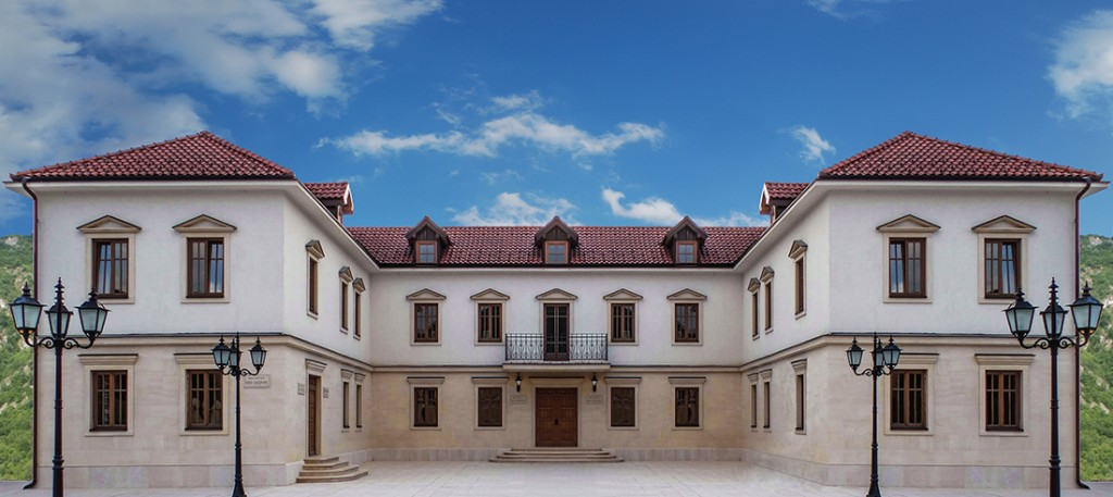 Андрићев институт